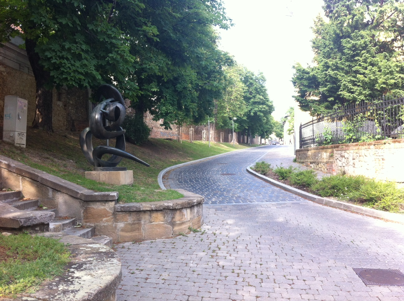 Museum street, Pécs, Hungary